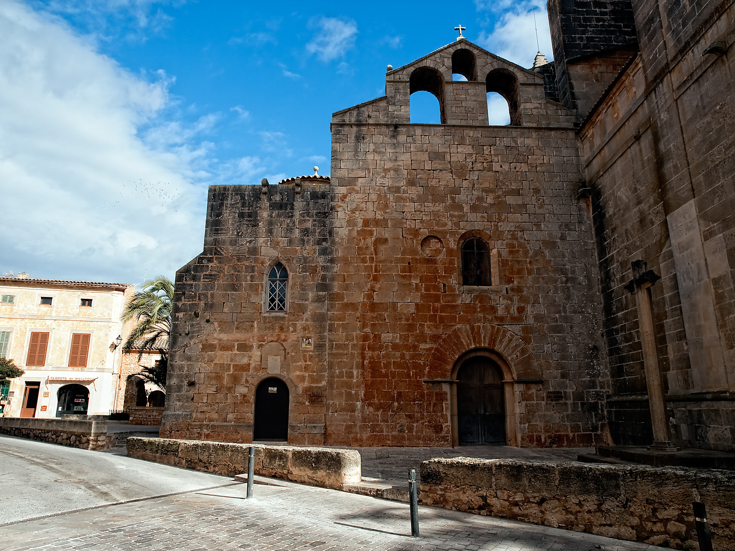 Roser church of Santanyí (Mallorca, Spain)